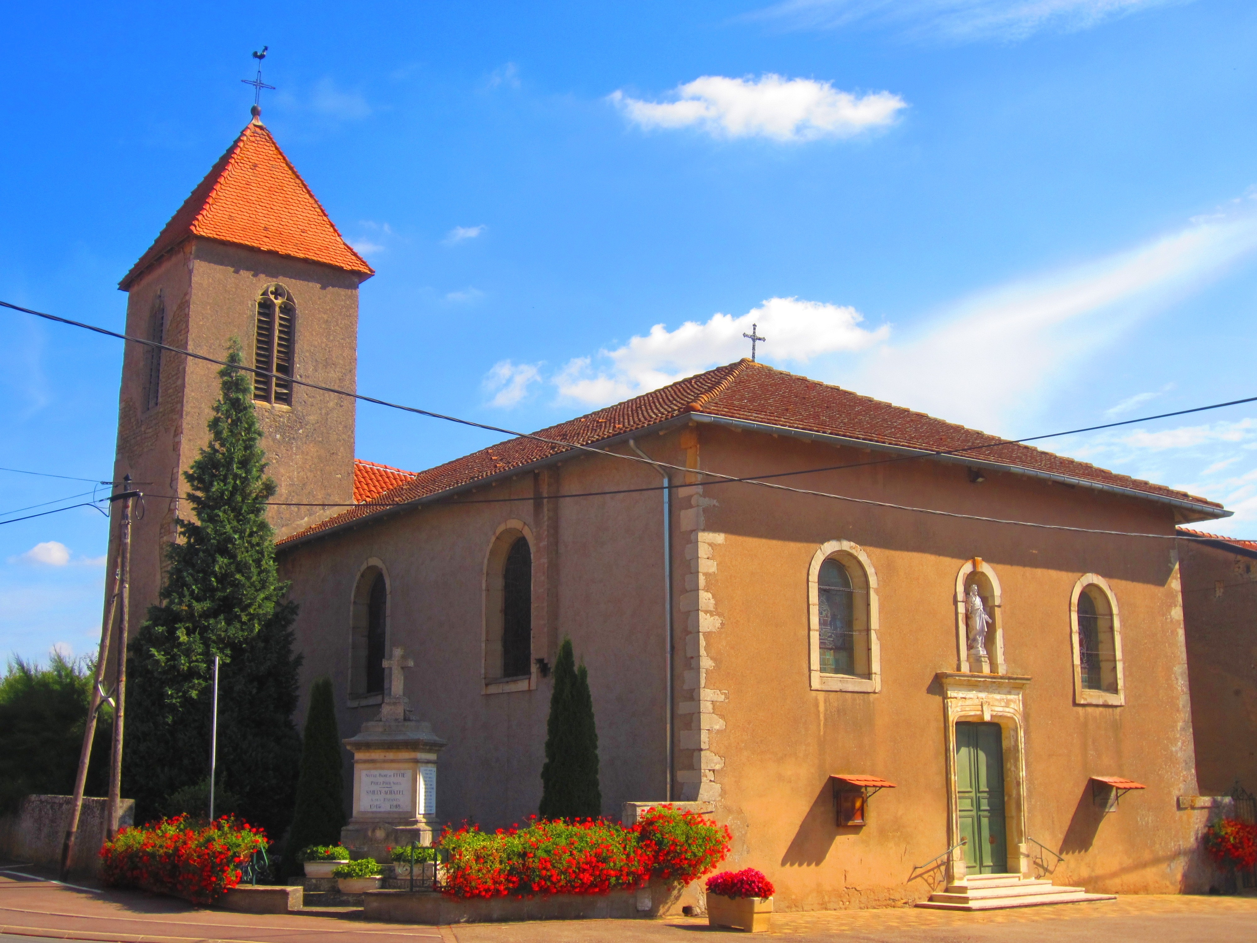 Sailly Achatel church